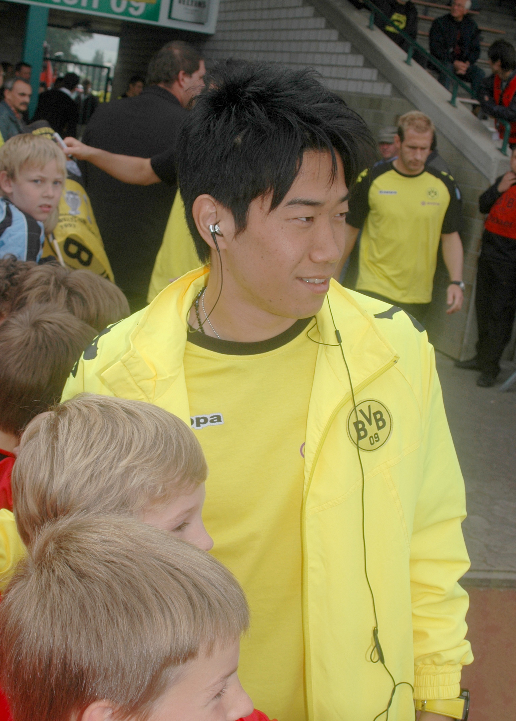 Shinji Kagawa is a Japanese footballer.